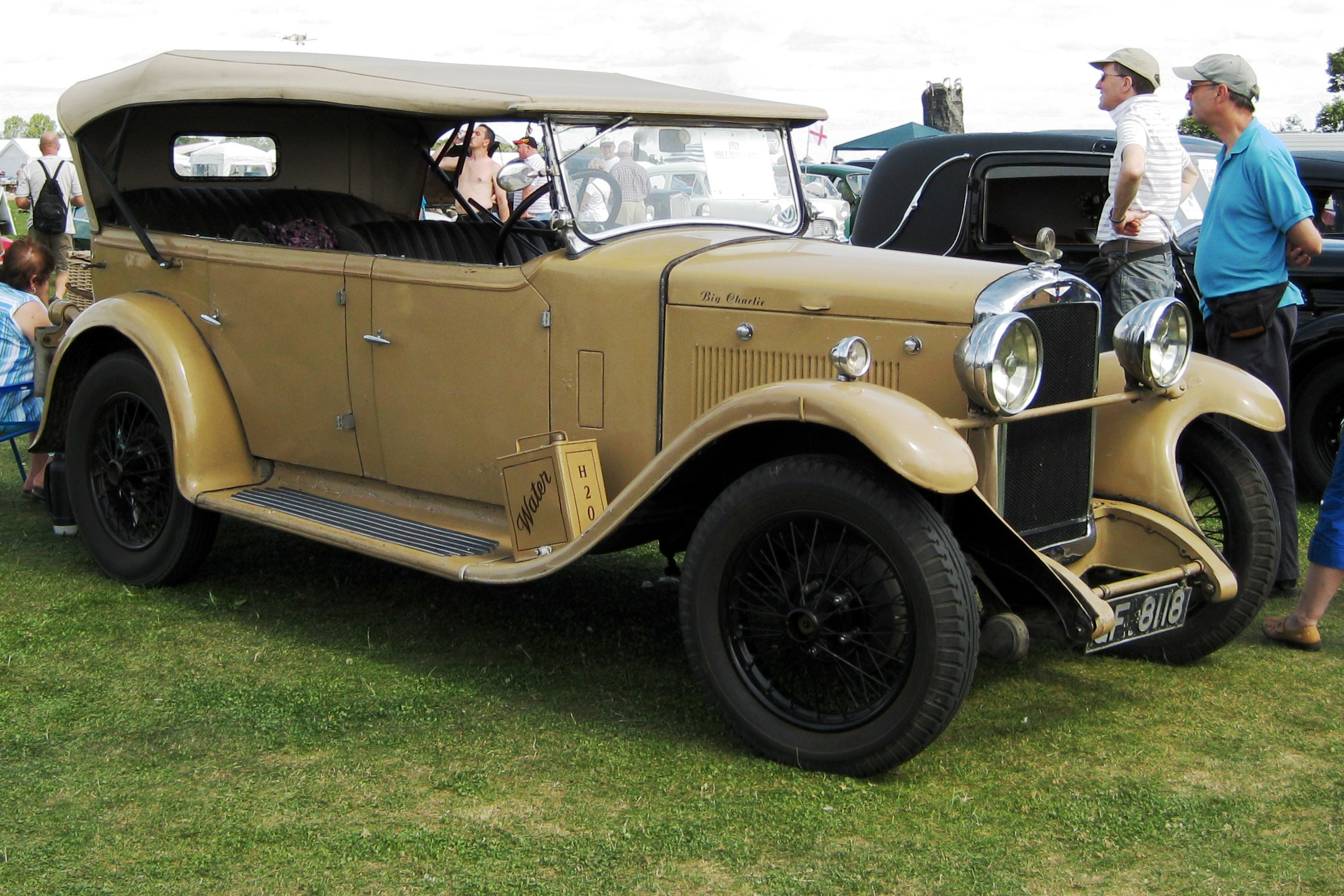 Torpedo-bodied 1929 Hillman 14 convertible